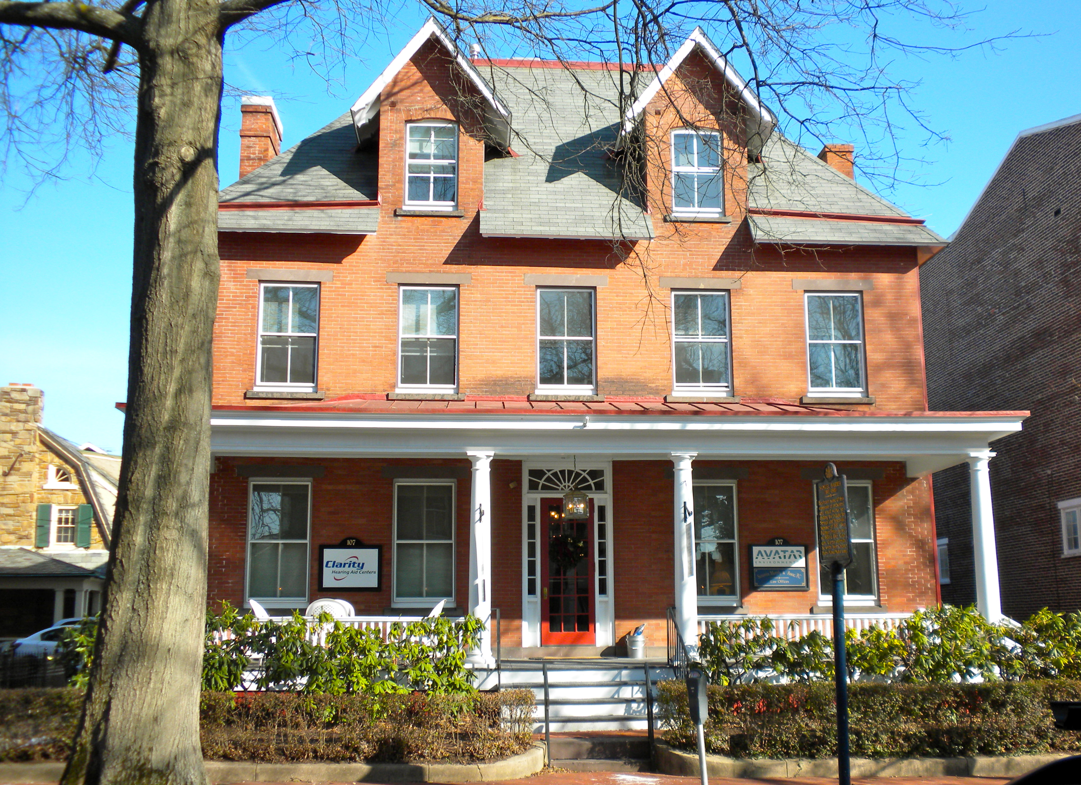 Boyhood home of composer Samuel Barber. (Note Historical Marker in front of house) in West Chester, PA I donate this photo to the public domain